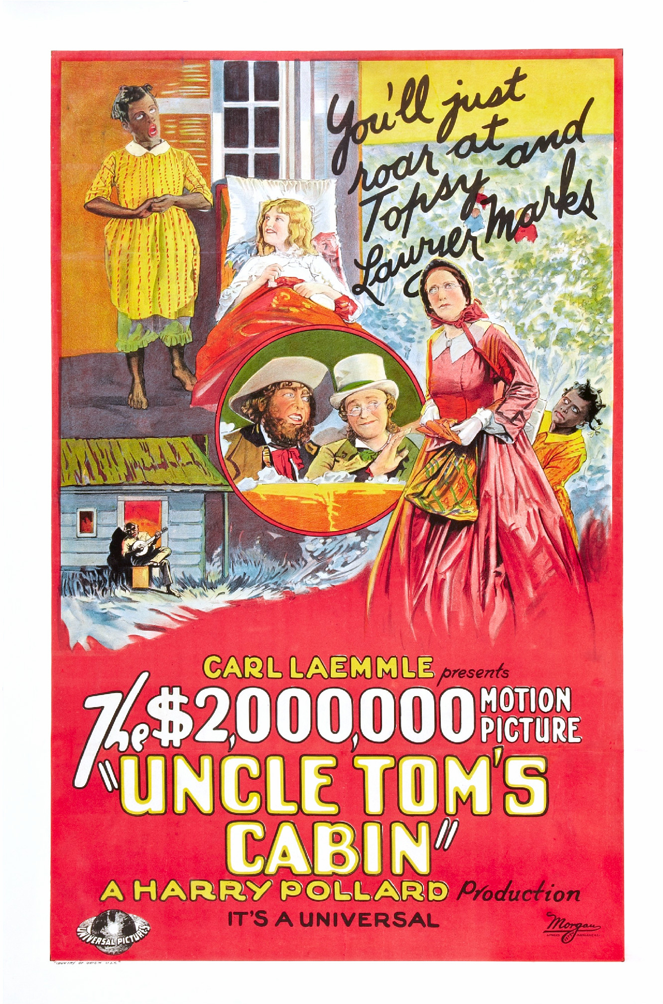 Poster for the 1927 film Uncle Tom's Cabin. There are no copyright marks on the poster. At bottom left is Country of origin USA and the Universal logo. At bottom right is the logo of the Morgan Litho Company, Cleveland-they printed the poster.